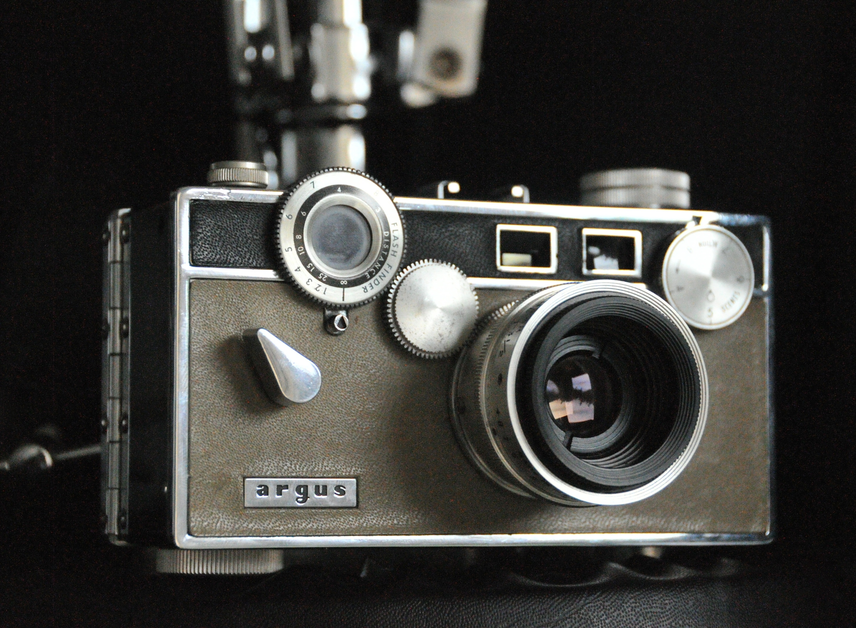 Argus C3 Match-Matic.